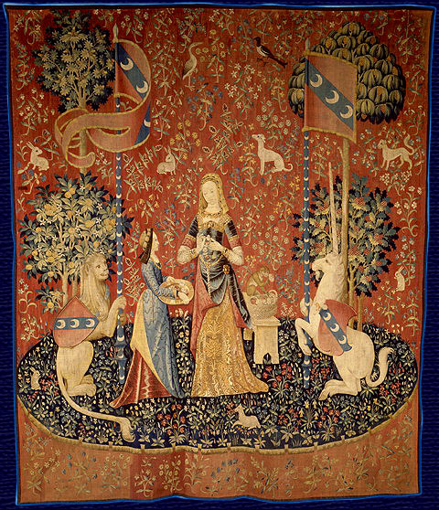 The Lady and the Unicorn (French: La Dame à la licorne) also called the Tapestry Cycle is the title of a series of six Flemish tapestries depicting the senses. They are estimated to have been woven in the late 15th century in the style of mille-fleurs. Approx 368 x 322 cm